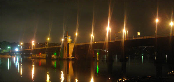 Spit Bridge by Night, taken from Ellery Punt Reserve.